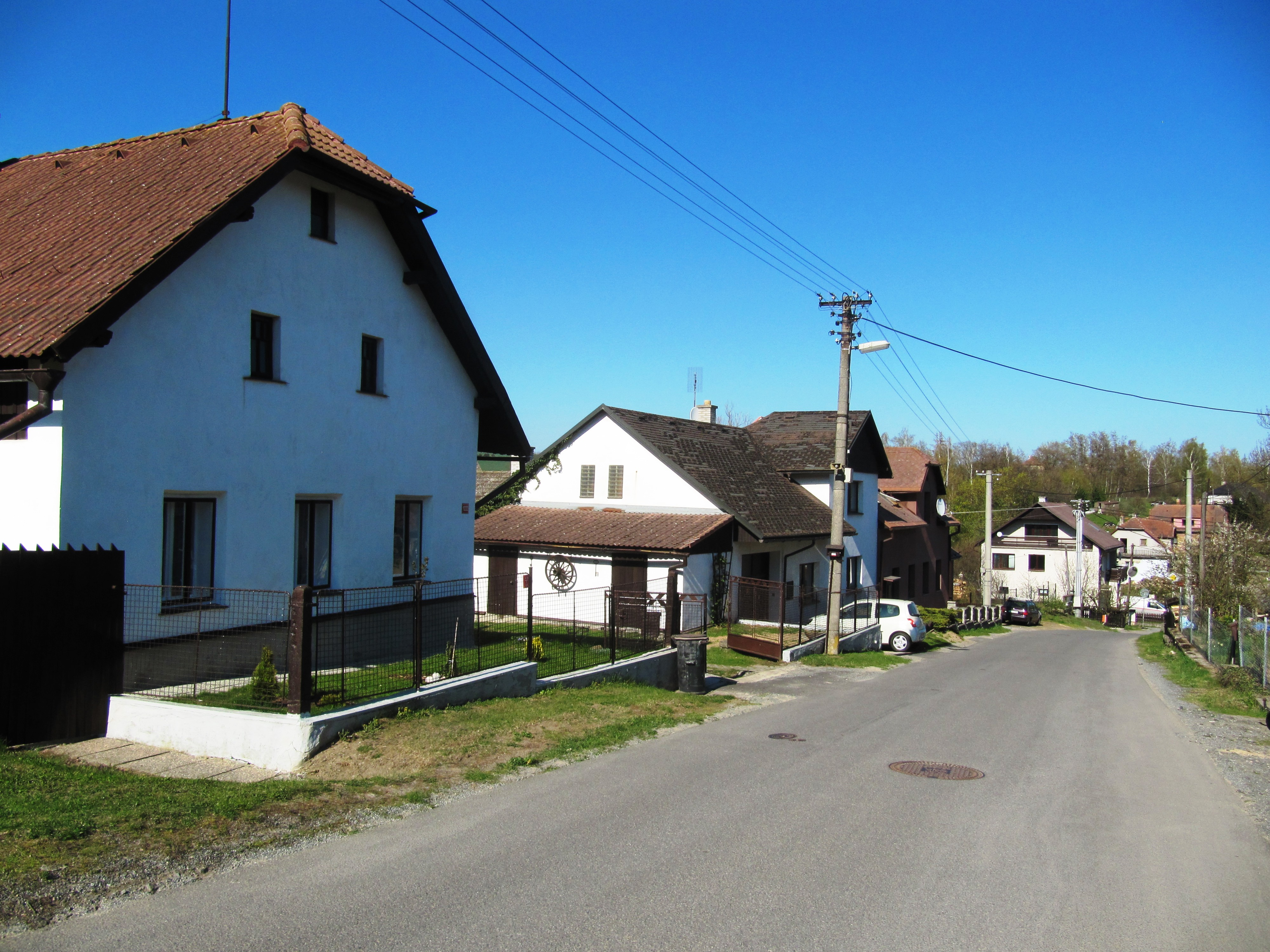 Bystřice nad Pernštejnem, Žďár nad Sázavou District, Czechia, part Domanínek.